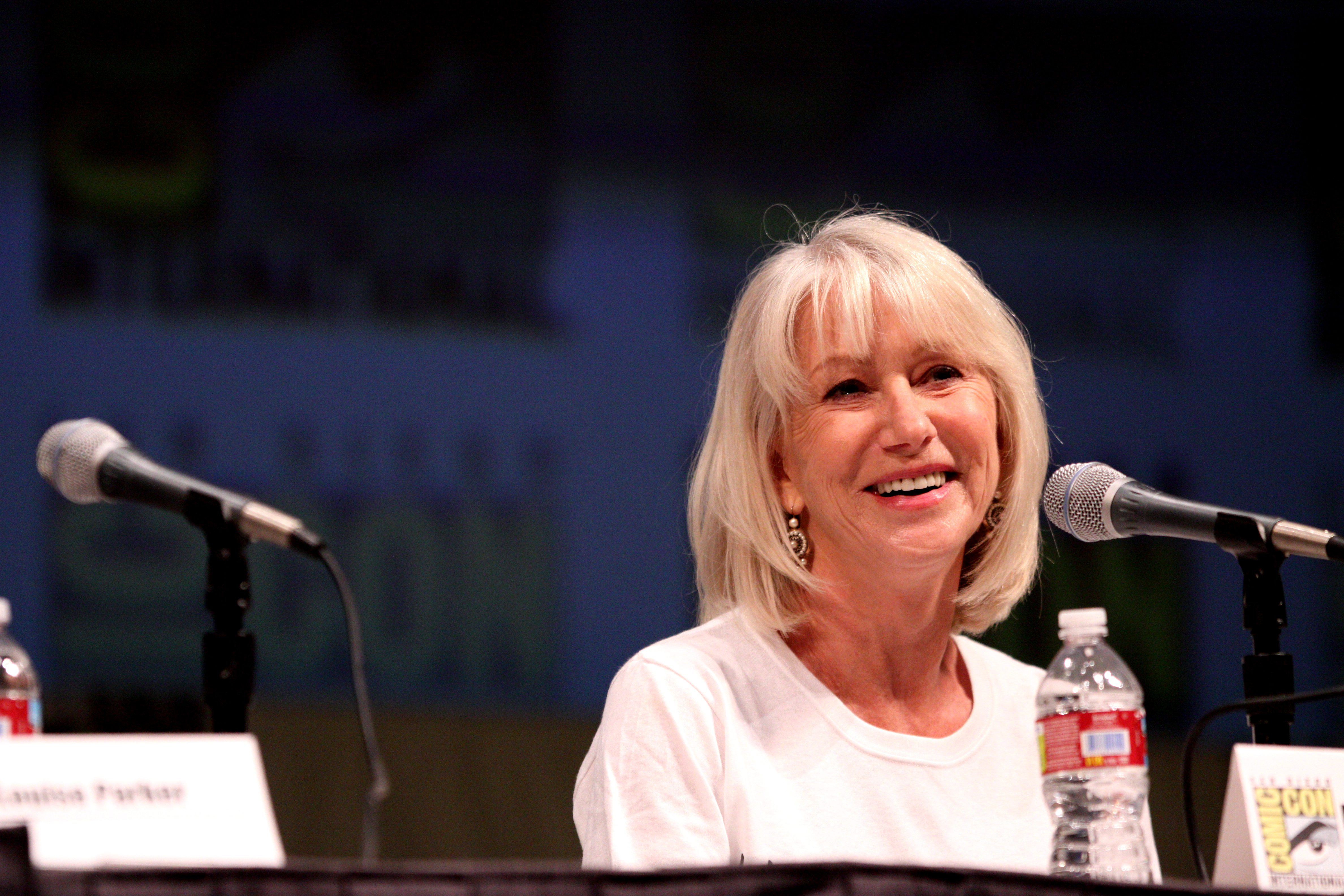 Actress Helen Mirren on the Red panel at the 2010 San Diego Comic Con in San Diego, California.